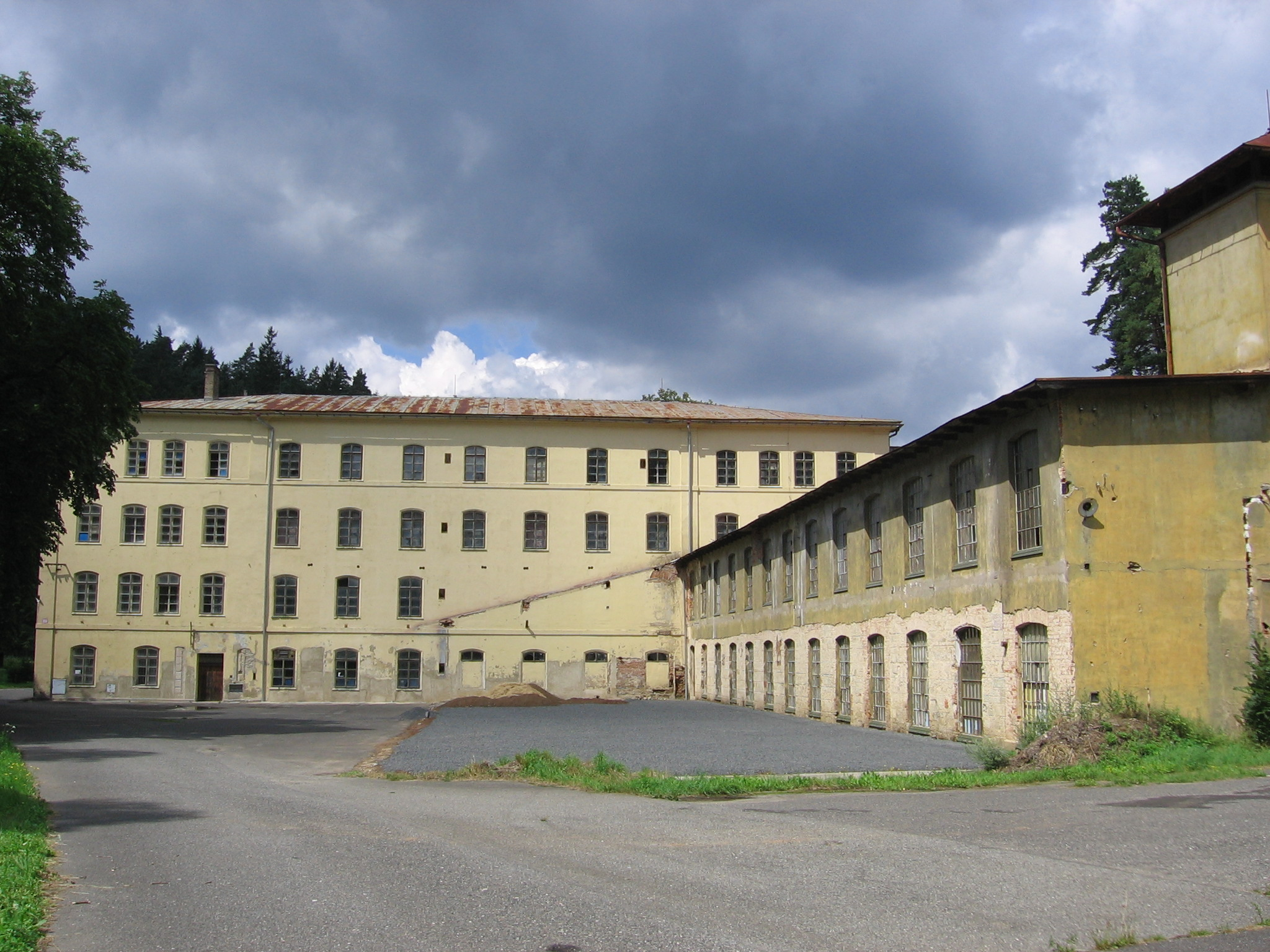 Rabštejn Underground Factory - surface industrial works, originally textile works (near Česká Kamenice, Czech Republic)